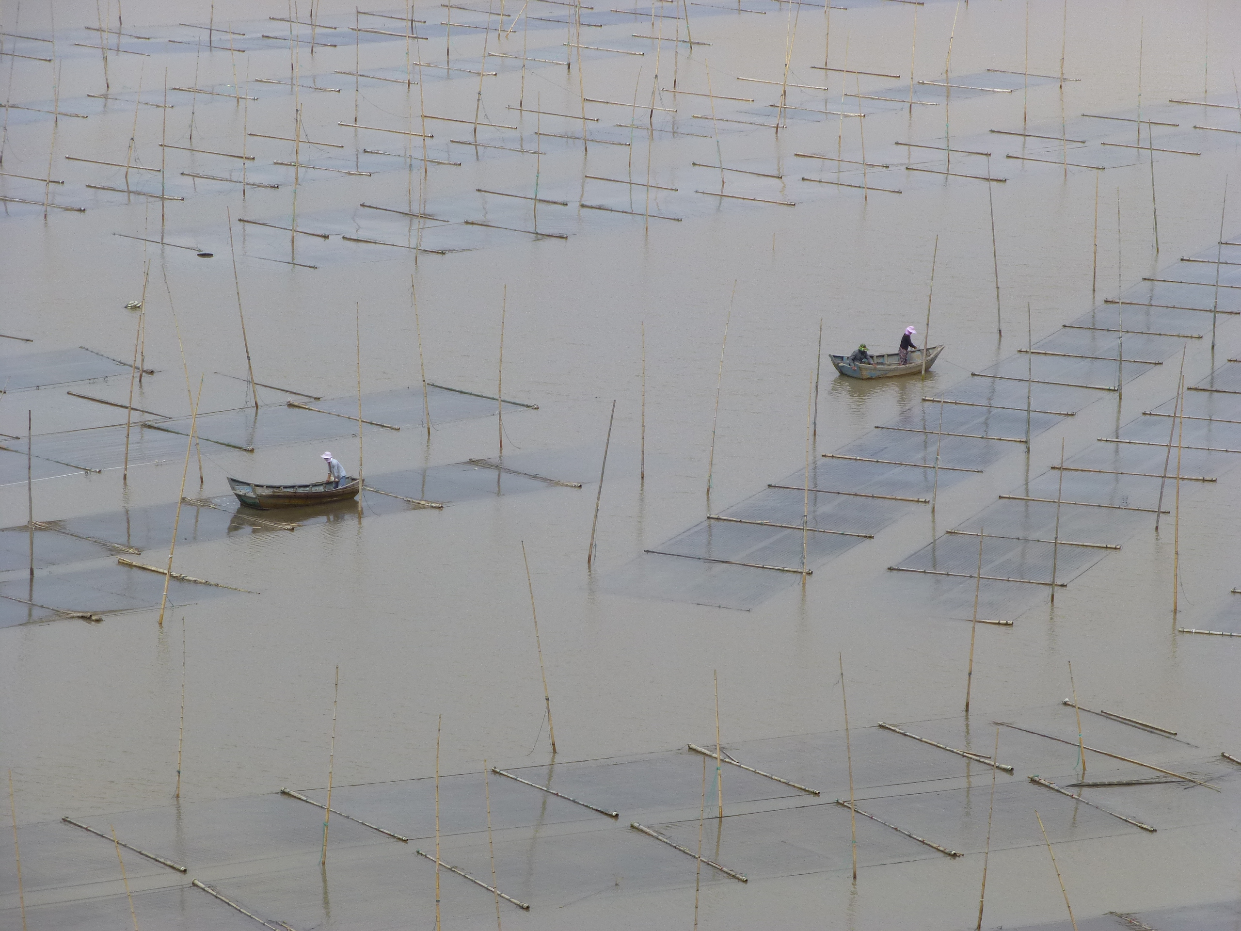 Along the southern shore of Chixi Harbor (a river estuary), just southeast of Chixi Town's central urban area. Chixi Town, Cangnan County, Zhejiang, China. One can see a lot of bamboo piles along the road here; it's harvested in the forest along the road, and used in fishing/aquaculture structures in the bay.